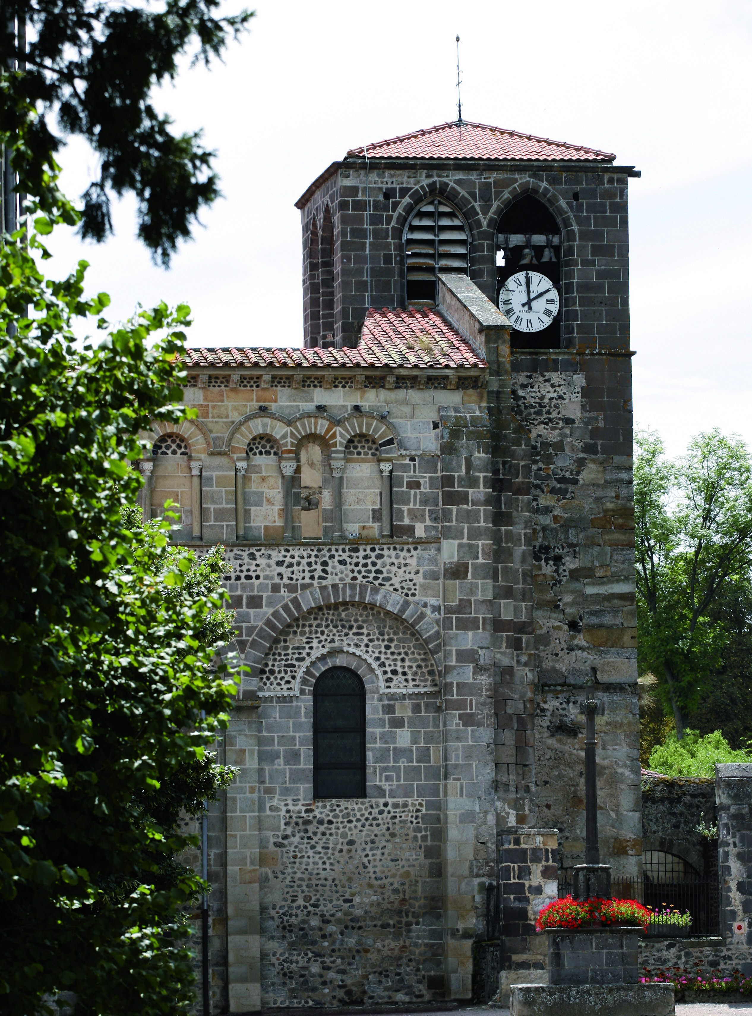 Church of Mozac (France).